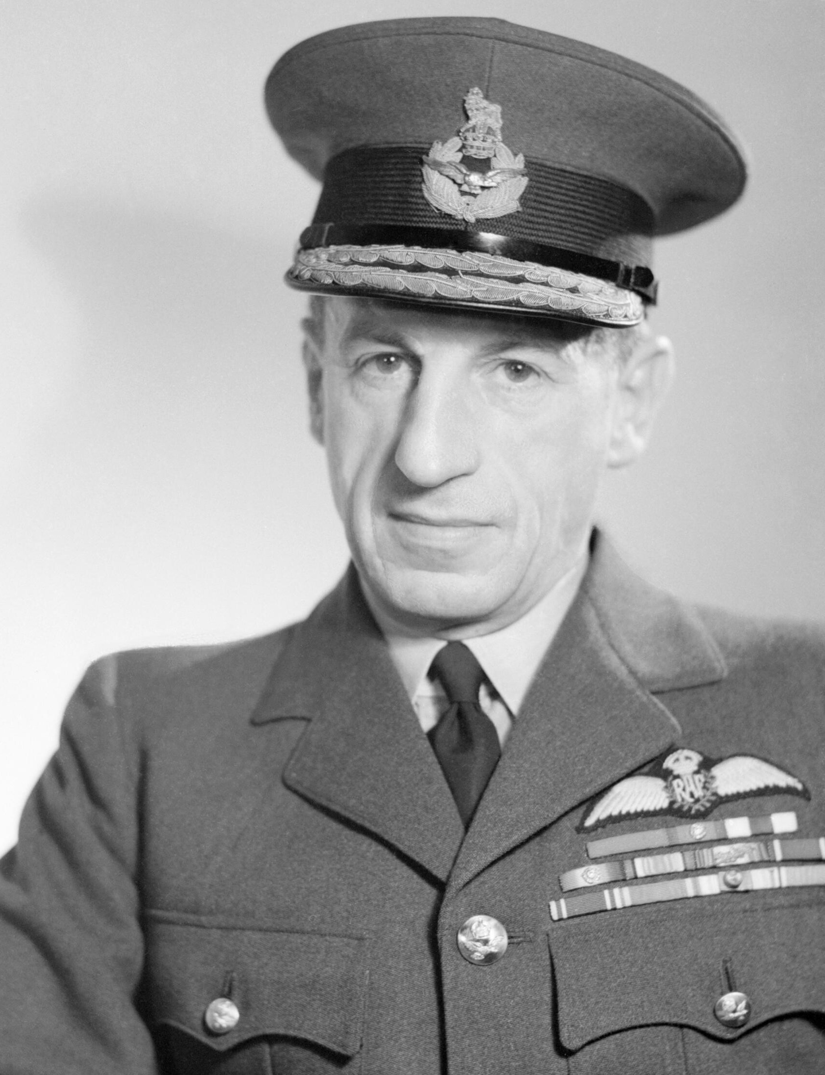 Marshal of the RAF Sir Charles Portal. Photograph taken at the Air Ministry in London.